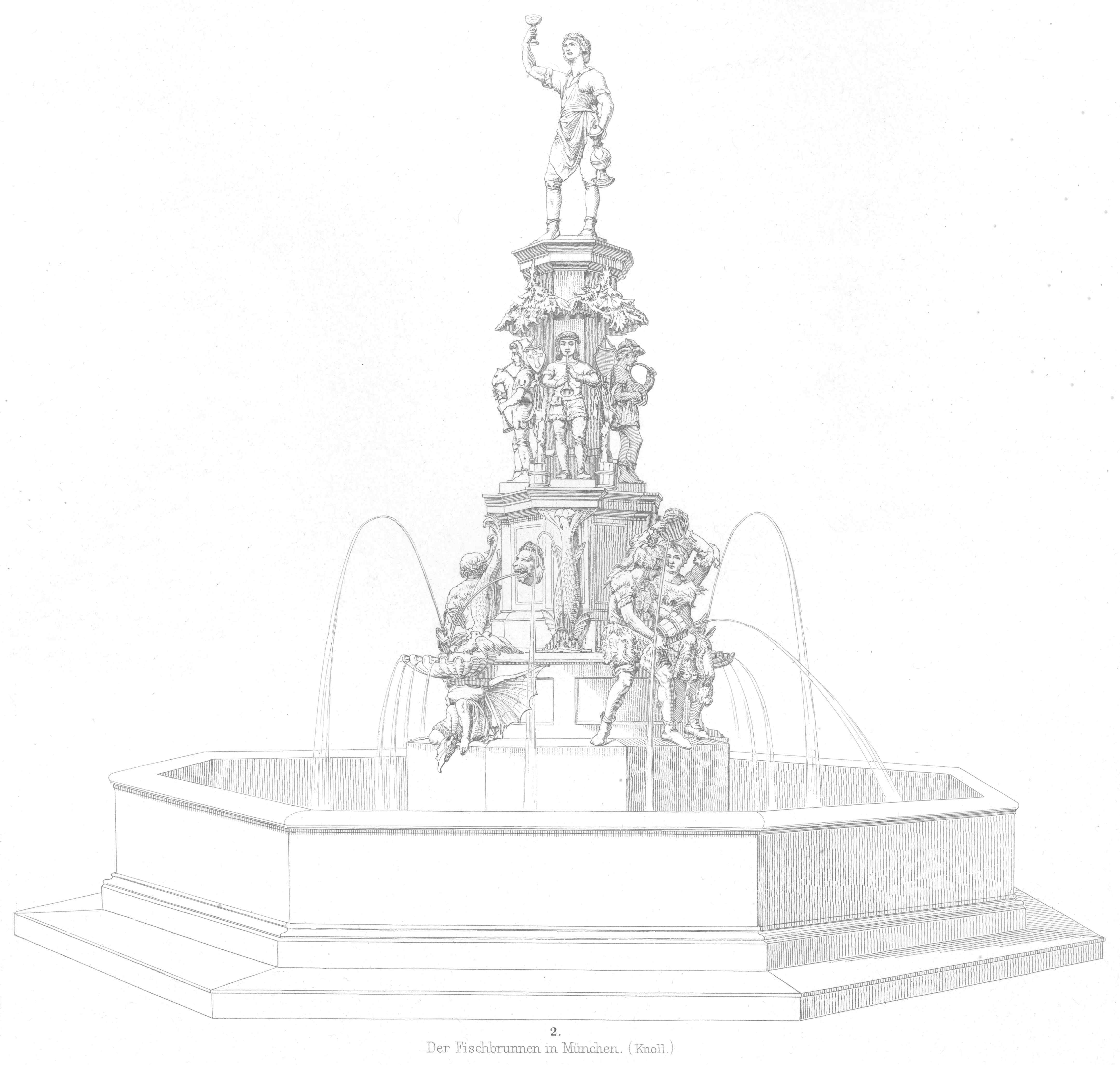 Fish-Fountain in Munich (1865-1944) from Konrad Knoll (1829 - 1899)